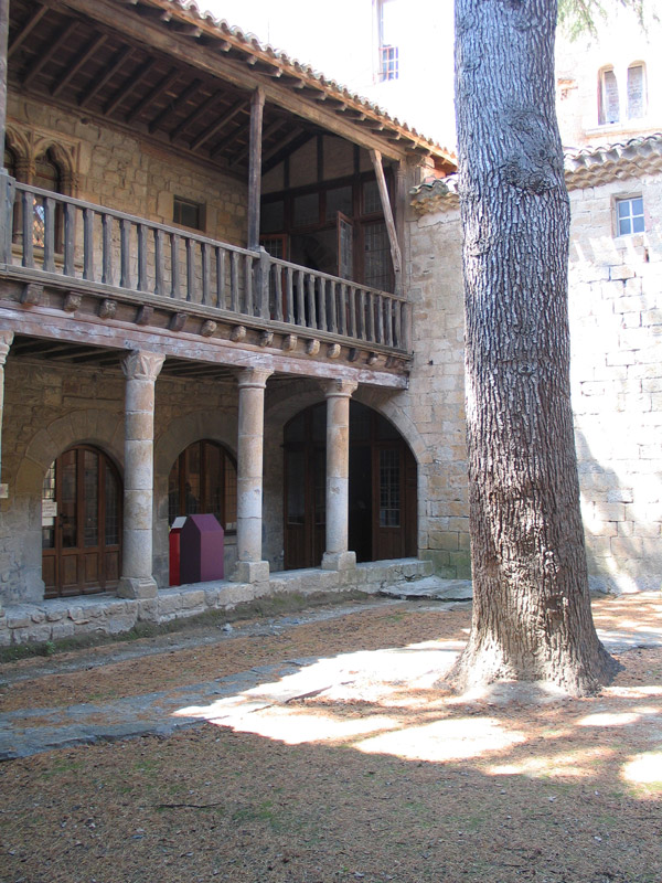 Courtyard Abbey Sainte-Marie de Lagrasse (France)